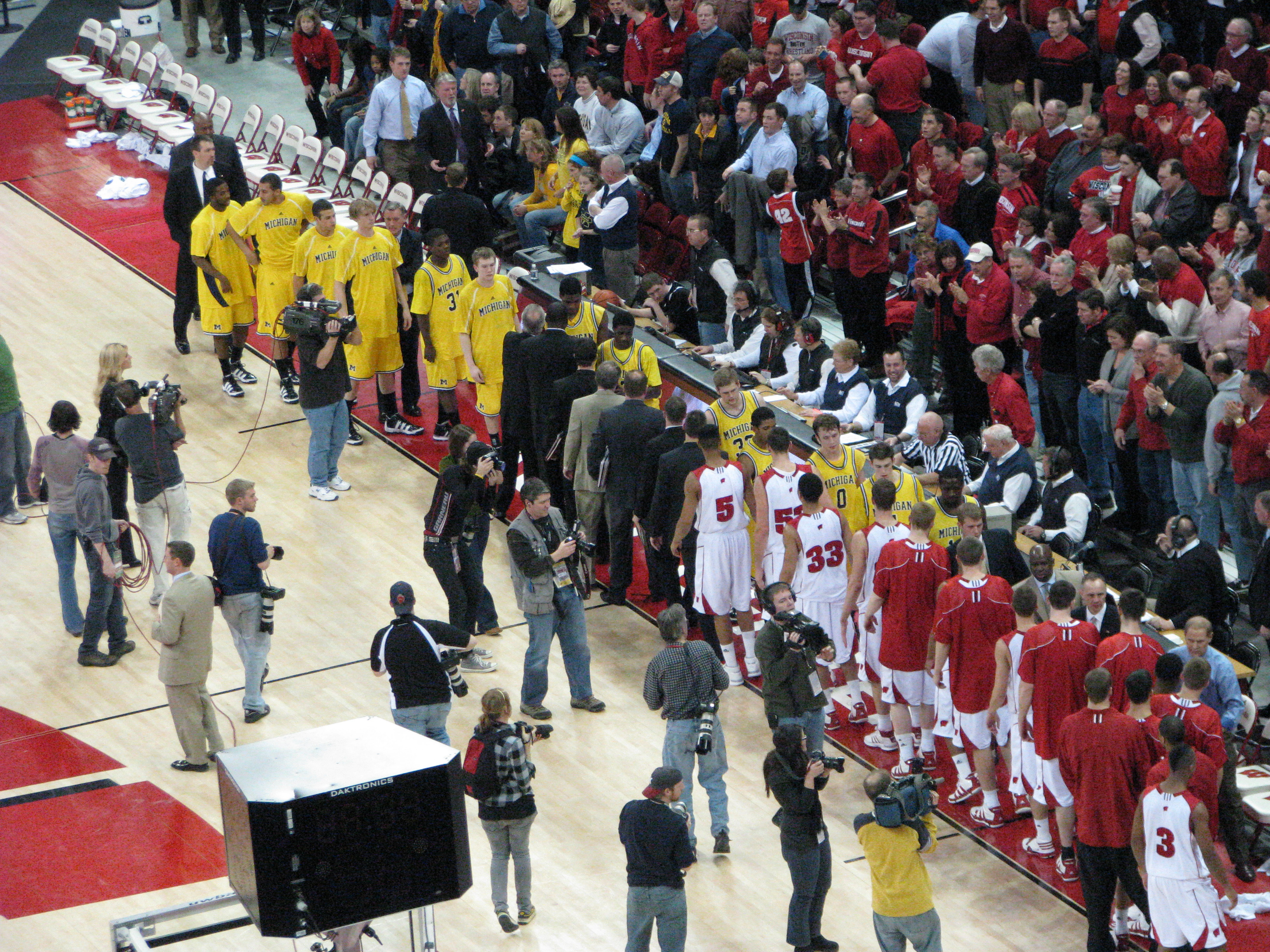 w:2009–10 Wisconsin Badgers men's basketball team and w:2009–10 Michigan Wolverines men's basketball team shake hands after their game.